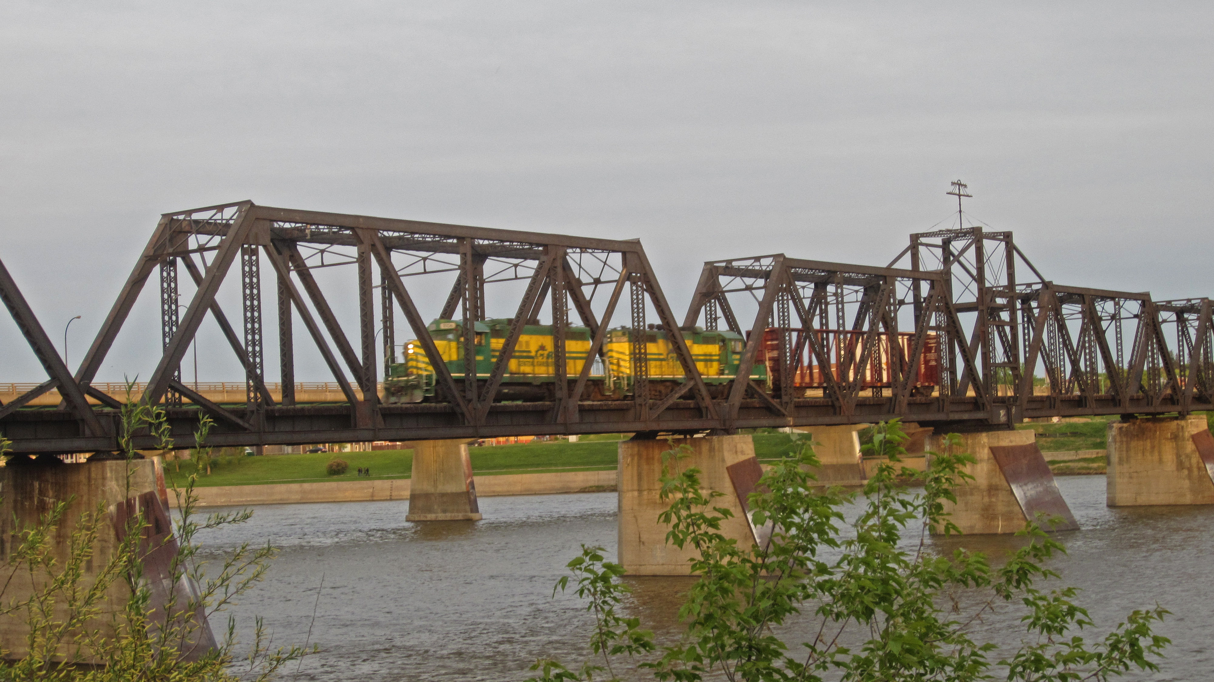 Carlton Trail Railway GP10s cross the North Saskatchewan bridge in 2013.